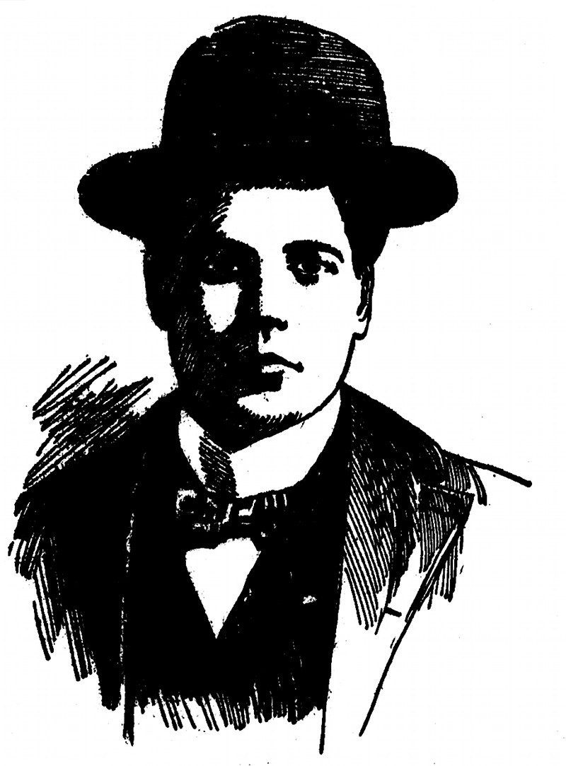 Drawing of Harry Allen (trans man), aka Nellie Pickering, from “This Girl Refuses to Wear Skirts; Nellie Pickerell Acts, Talks and Dresses Like a Man, and says She Ought to Have Been One”, in Boston Post, April 30, 1900, page 15